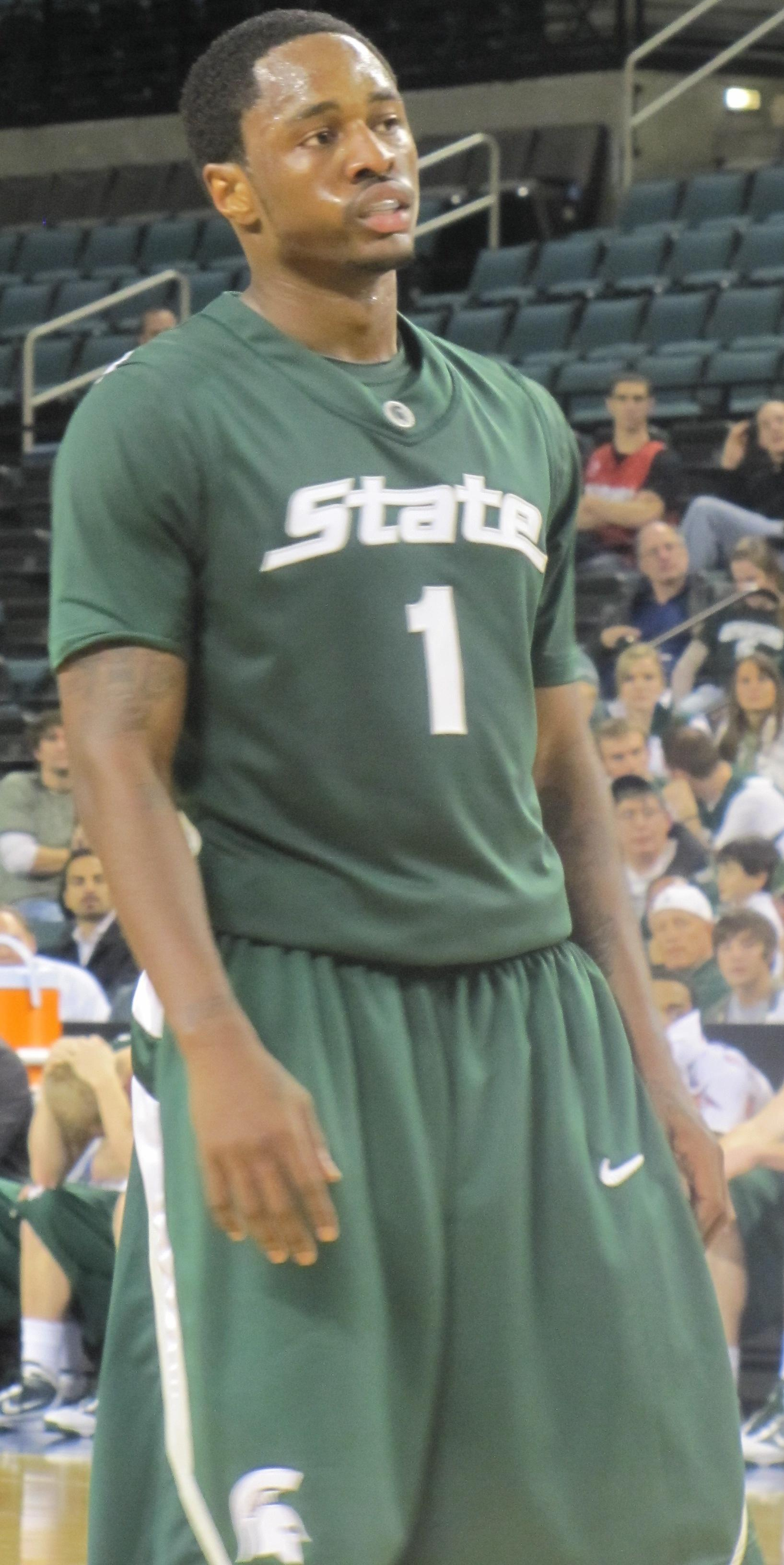 Kalin Lucas of Michigan State Spartans men's basketball team